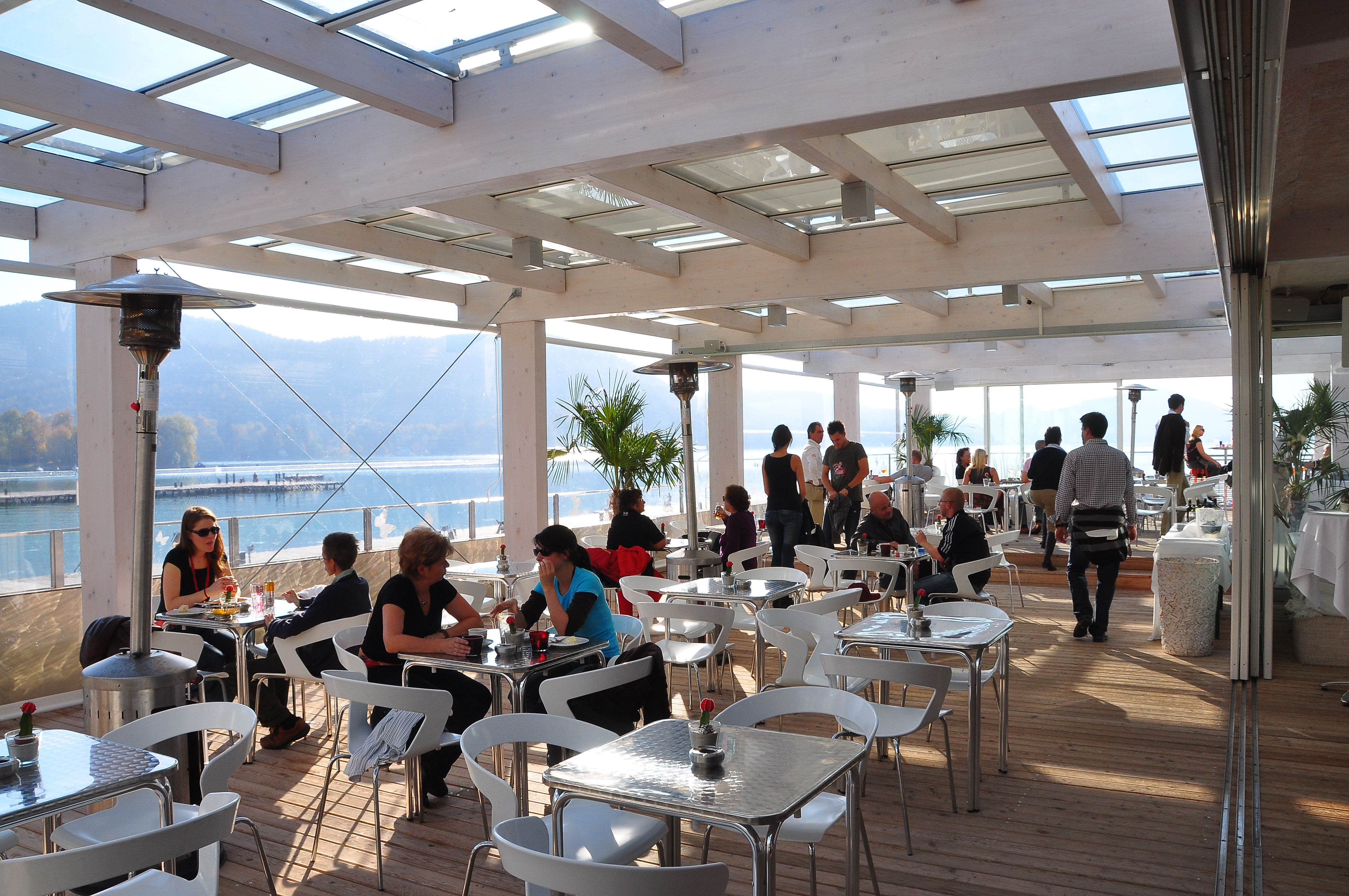 Cafe sunset bar on the beach in Klagenfurt on the Lake Woerth, Carinthia, Austria